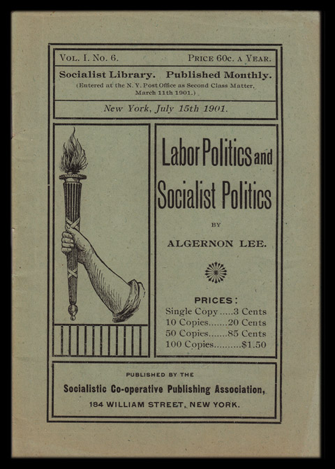 Cover of the pamphlet Labor Politics and Socialist Politics, by Algernon Lee. Published July 15, 1901.